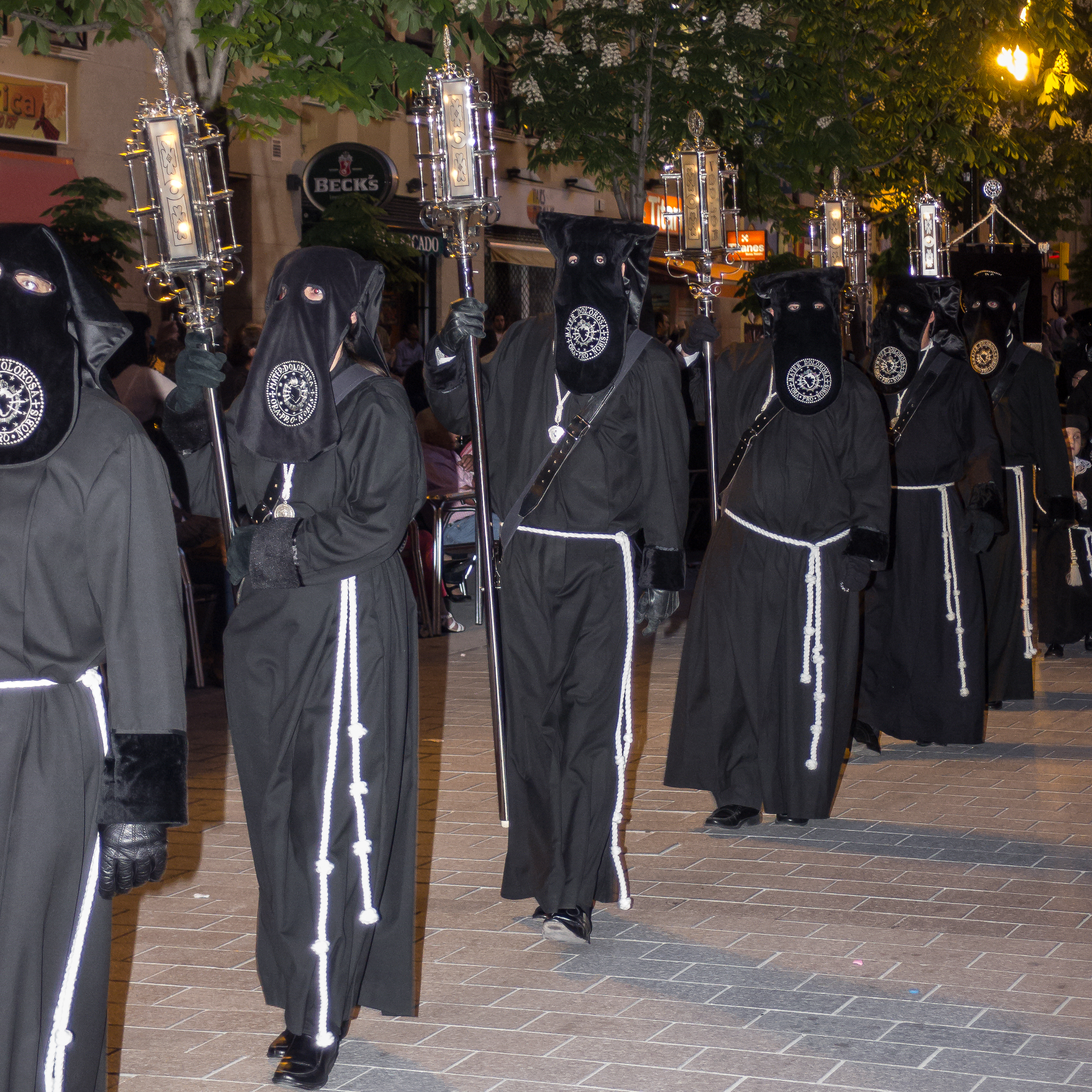 OLYMPUS DIGITAL CAMERA This is a photography of a Folklore festival in Spain (Wikidata id Q9075892).